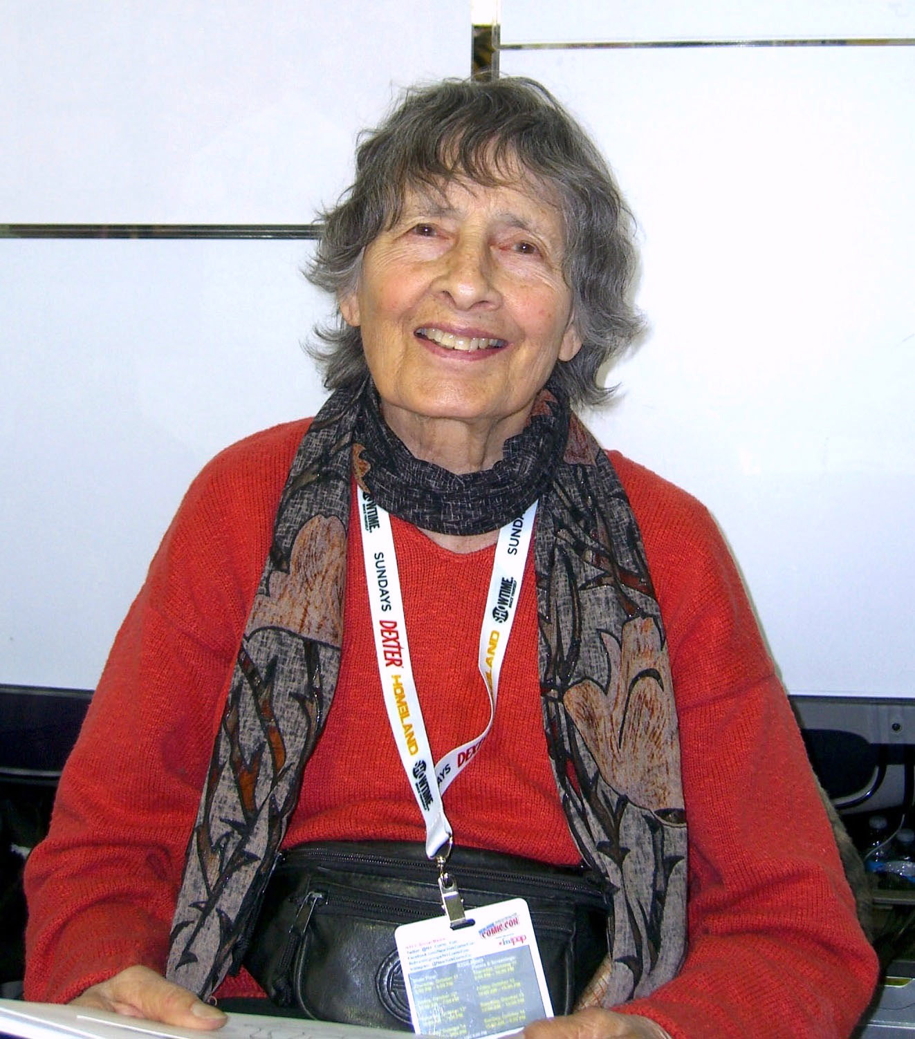 Comics creator Ramona Fradon on Day 3 of the 2012 New York Comic Con, Saturday October 13, 2012 at the Jacob K. Javits Convention Center in Manhattan. This photo was created by Luigi Novi. It is not in the public domain, and use of this file outside of the licensing terms is a copyright violation.